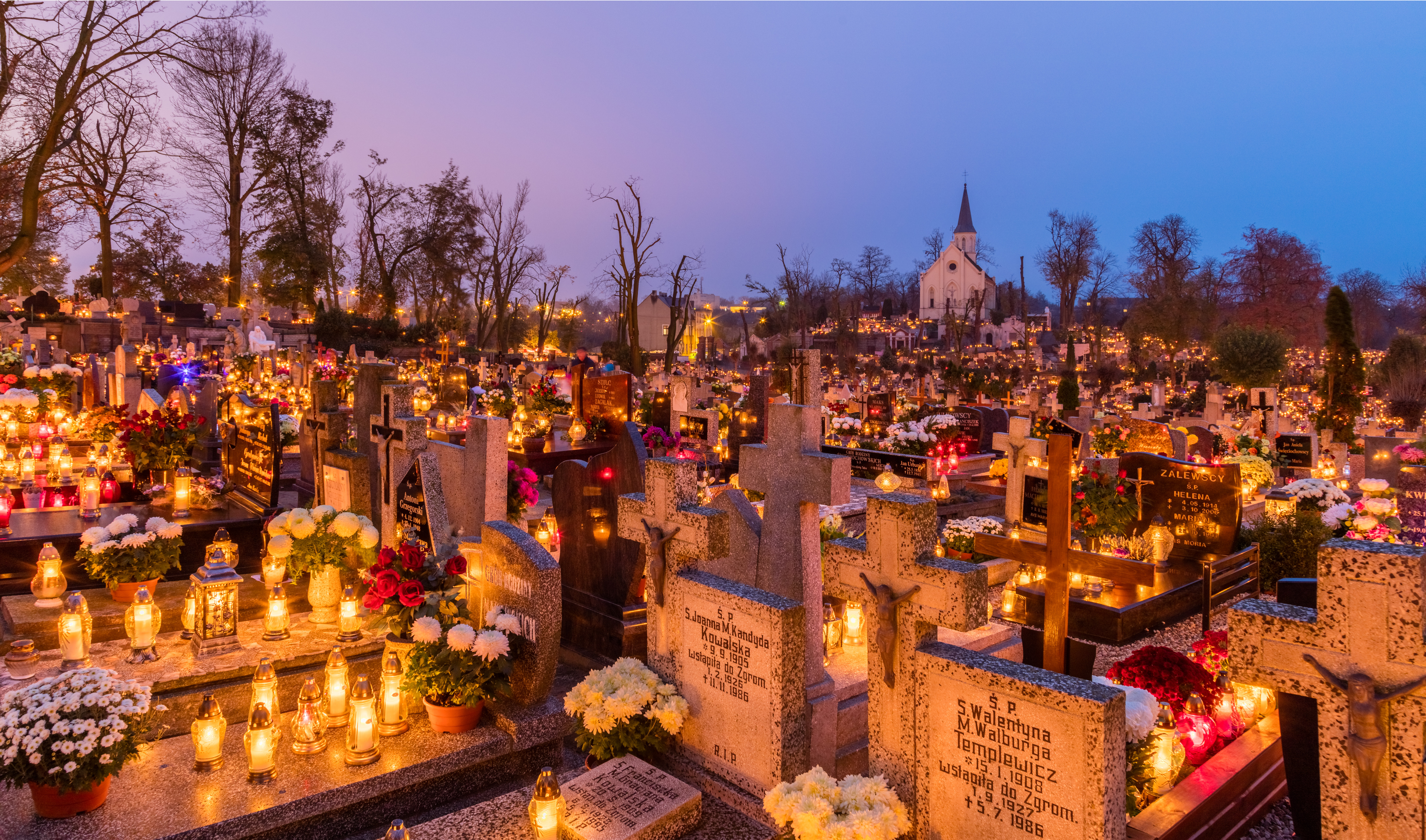 All Saints Day, Holy Cross Cemetery in Gniezno, Poland